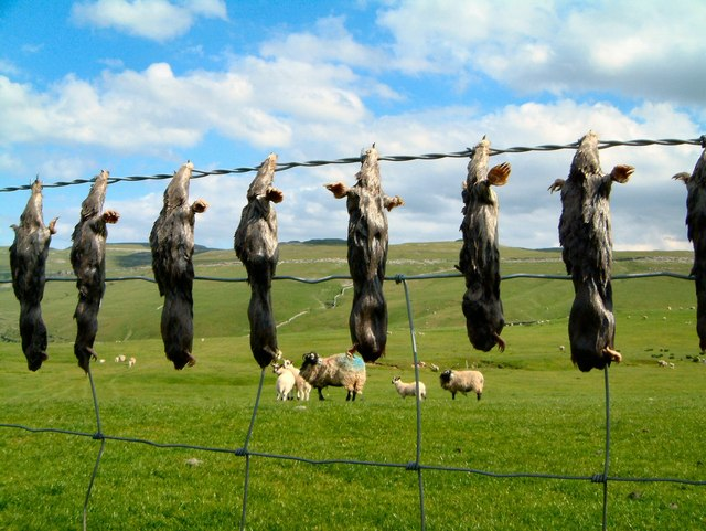 Mole (Talpa europaea) catcher's gibbet on Malham Moor. Part of a large collection of moles hung on a barbed wire fence (the gibbet) by a mole-catcher as evidence of his work. Once a common sight in the countryside, but now quite rare. Upland chalk grassland and dry stone walls in background.